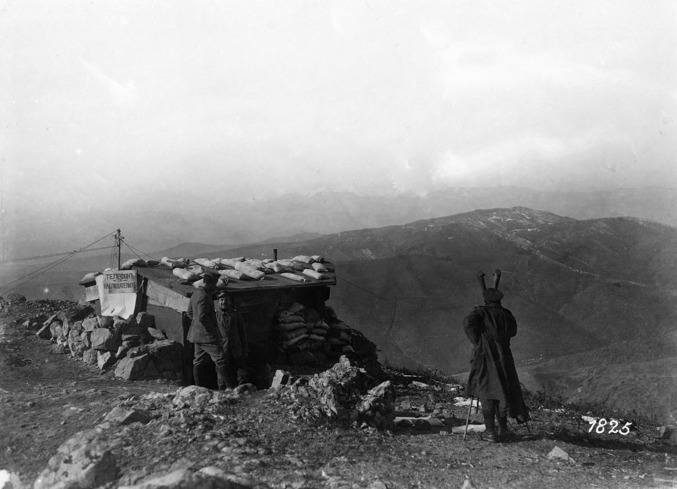 A Bulgarian telephone station with trench periscope observing the enemy's position at the Doiran front, March 1917 (German Official Photograph/National Archives)